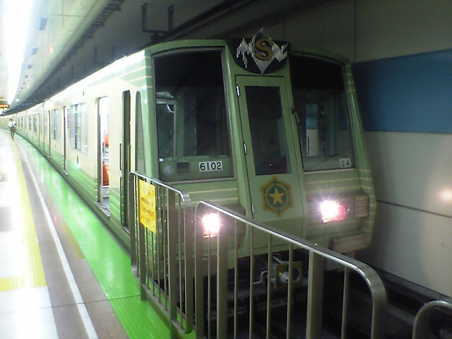 Sapporo City Transportation Bureau 6000-Type Railcar, Tozai line, Sapporo-city, Japan. Taken by Bellz asamidou on july 17, 2005.